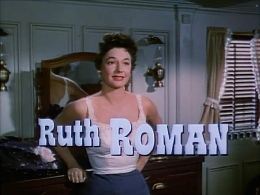 Screenshot of actress Ruth Roman in the trailer for the 1954 film The Far Country.